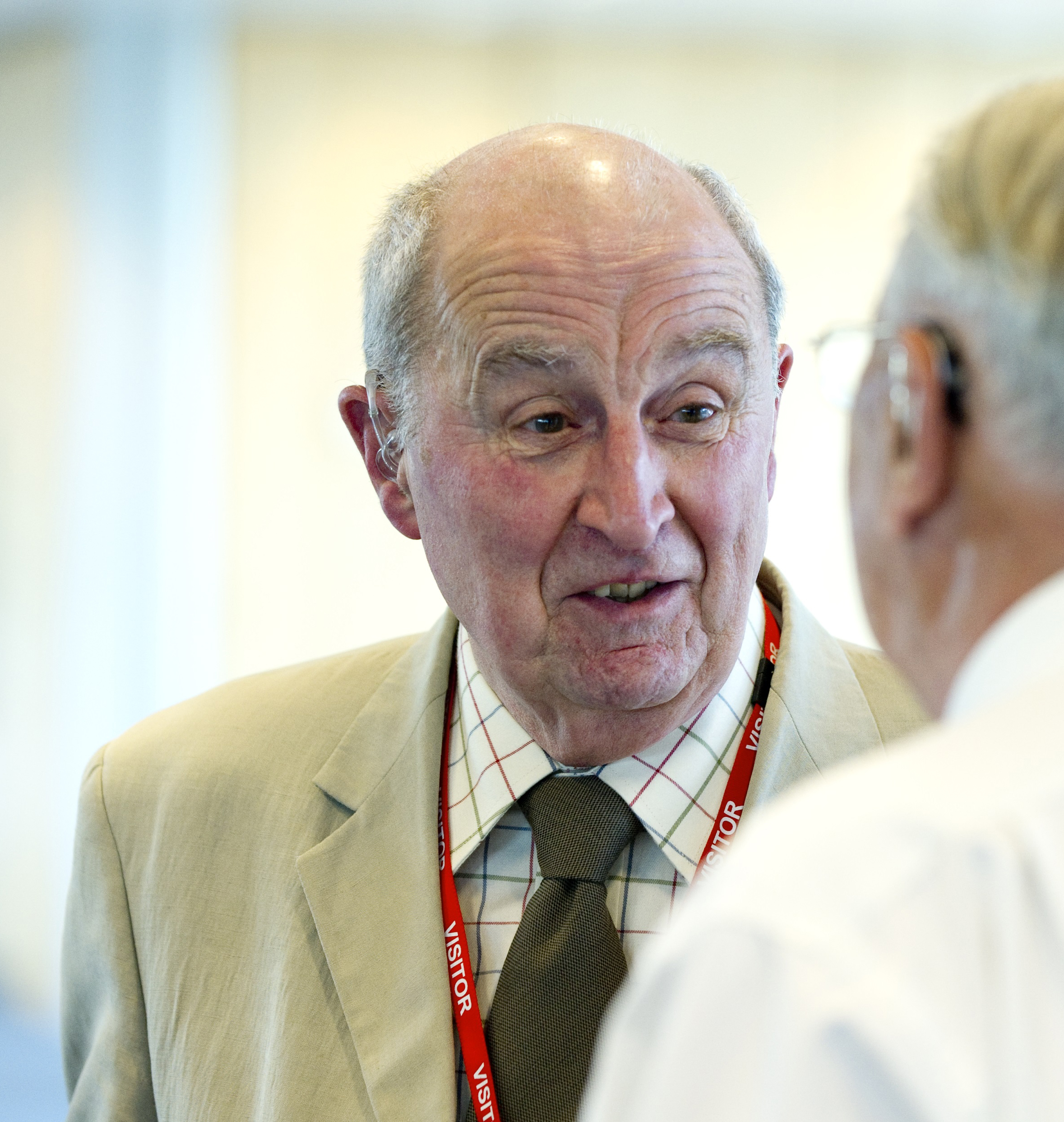 Photograph of Dr Joseph C. Stoddart (1932-2019) at Witness Seminar “History of British Intensive Care, c. 1950-c. 2000” held by the History of Modern Biomedicine Research Group,16 June 2010 at Queen Mary University of London. Cropped by Espresso Addict